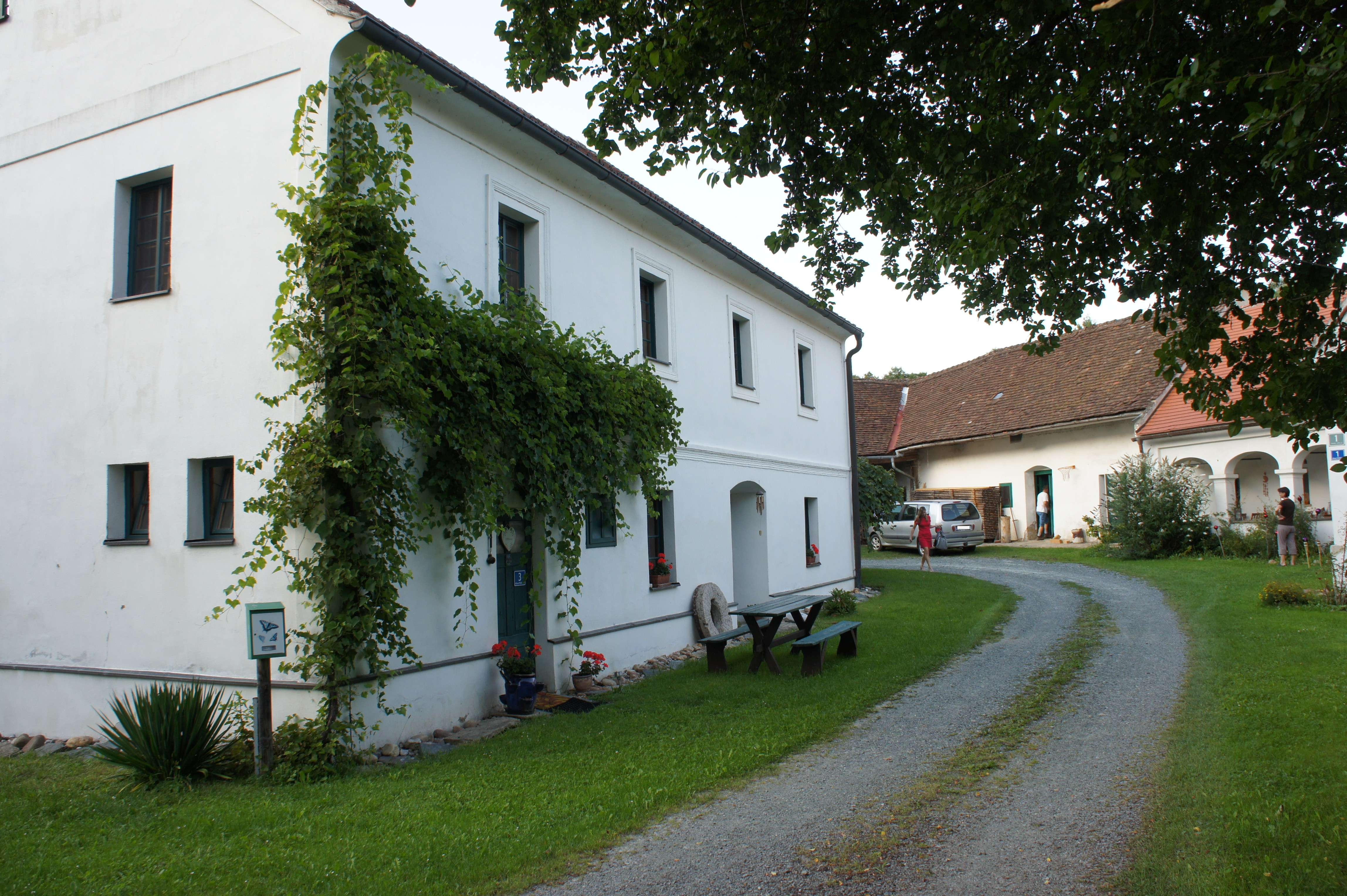 Old mill & outbuildings, Markt Allhau, Austria